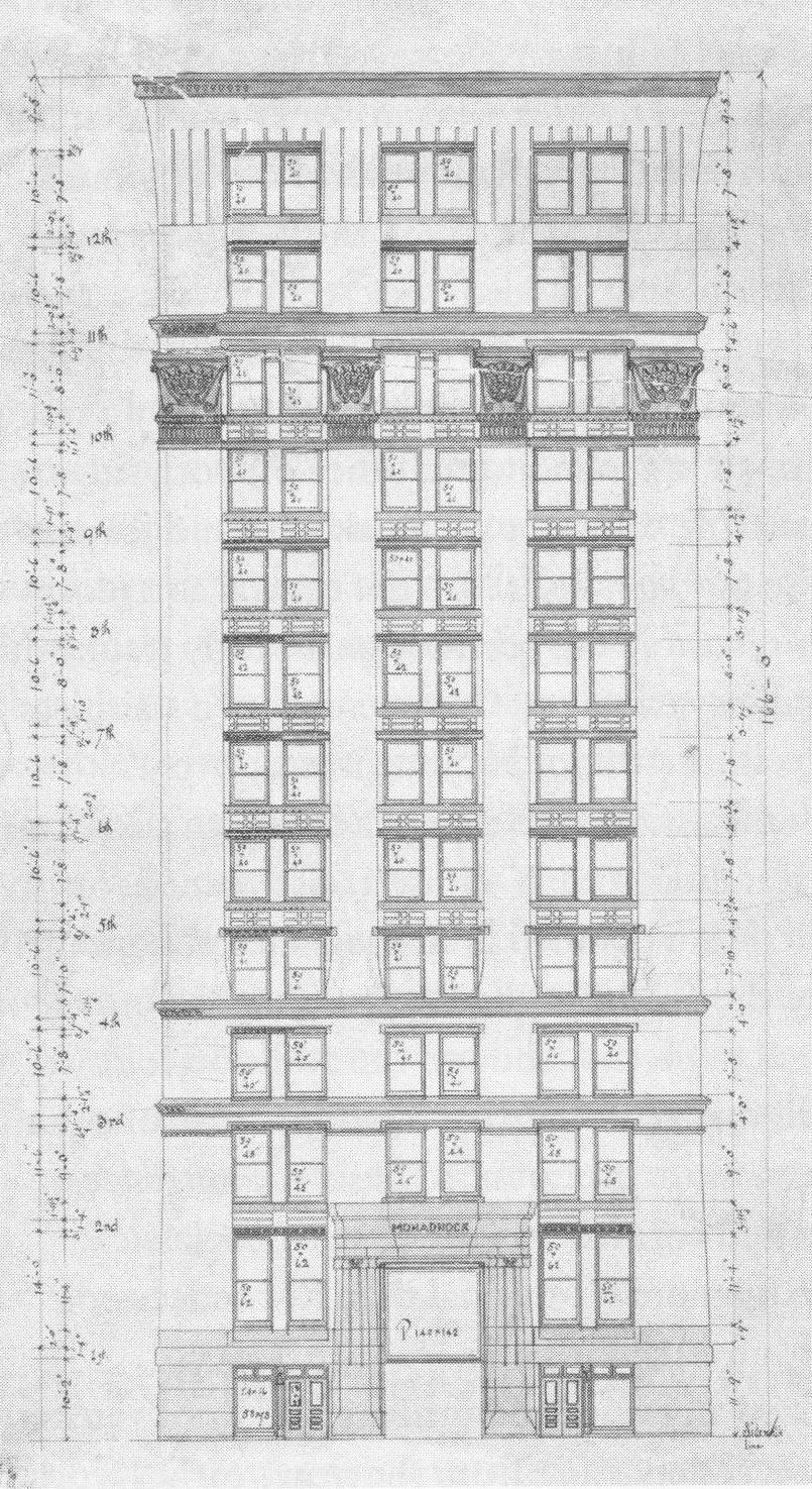 Original sketch of Jackson Street elevation, Monadnock Building, Chicago. Found in: Merwood-Salisbury, J. (2009). Chicago 1890: The Skyscraper and the Modern City. Chicago: University of Chicago Press., p. 59.